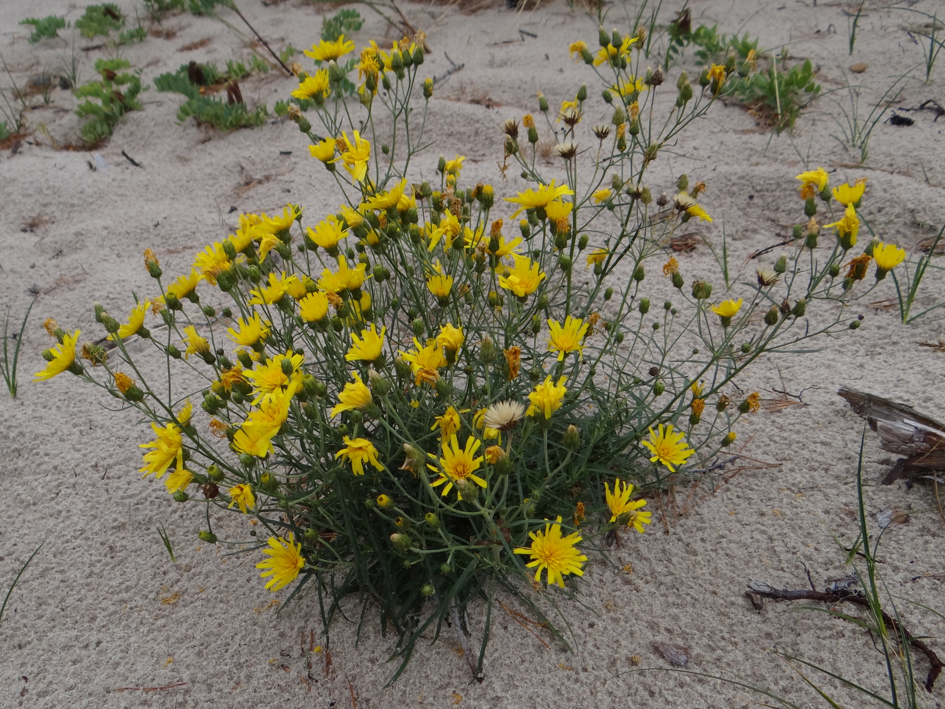 Hieracium umbellatum (location: Poland, Hel, cypel)